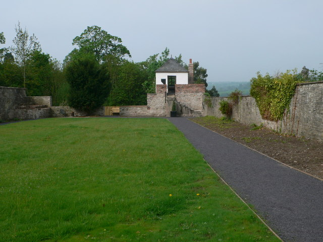 Recently restored gazebo at Nantclwyd y Dre At the north-west corner of the original garden of Nantclwyd y Dre is the gazebo or summerhouse which was probably constructed by John Wynne and his wife Dorothy, who occupied Nantclwyd from 1733.